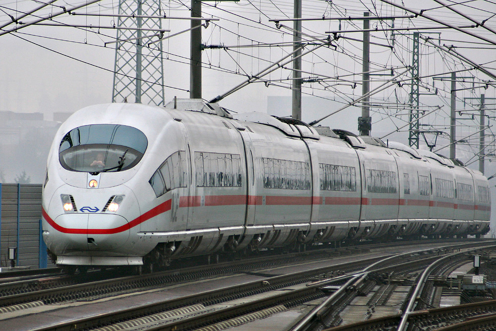 A Dutch ICE 3M passing through the station of Limburg Süd on the Frankfurt-Cologne high-speed railway line